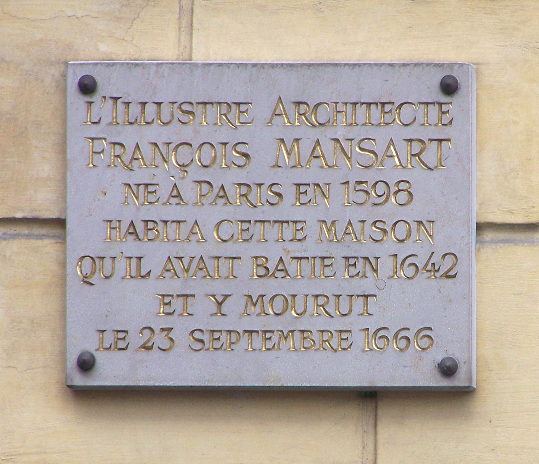 Paris, rue Payenne. Mansart's home. Sign